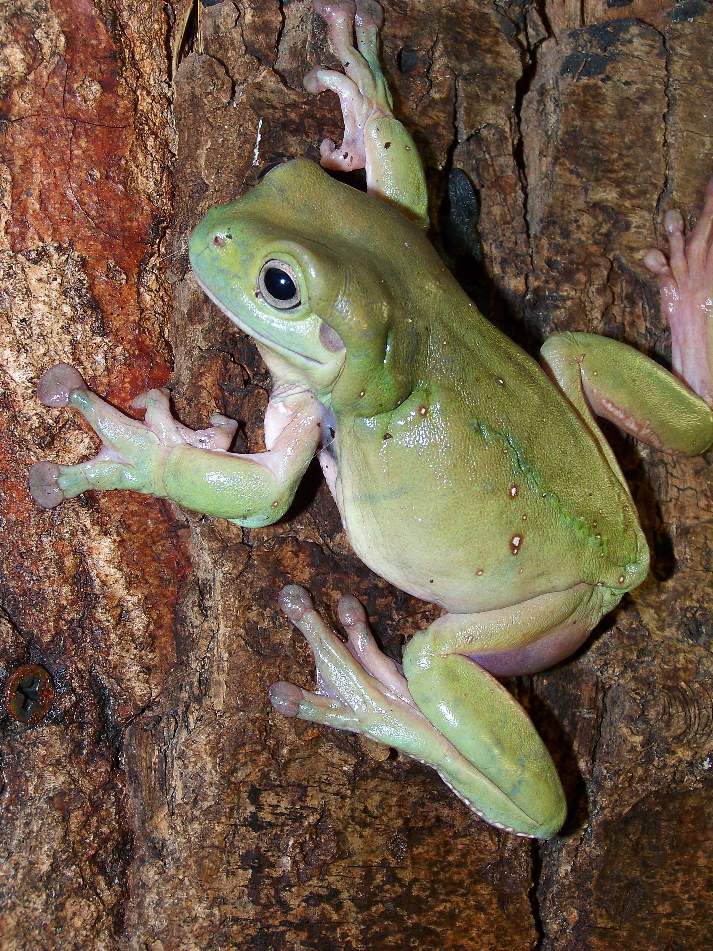 White's tree frog - Litoria caerulea